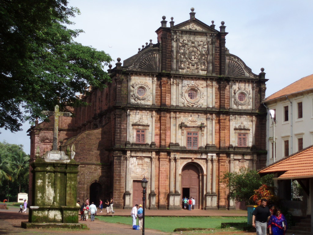 Basilica of Bom Jesus at Goa Velha / Old Goa (Goa, India)